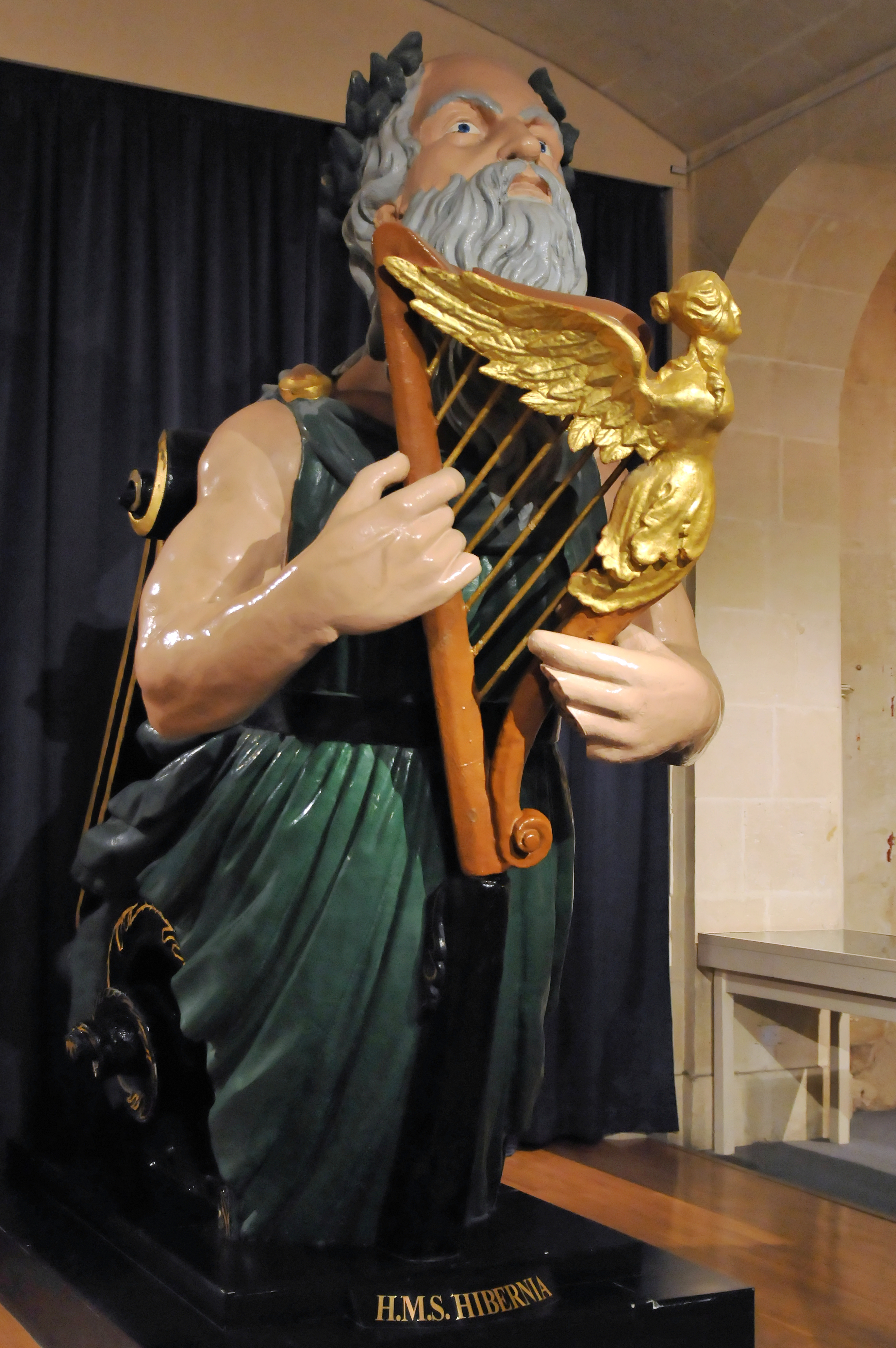 Figurehead of the HMS Hibernia (1804).